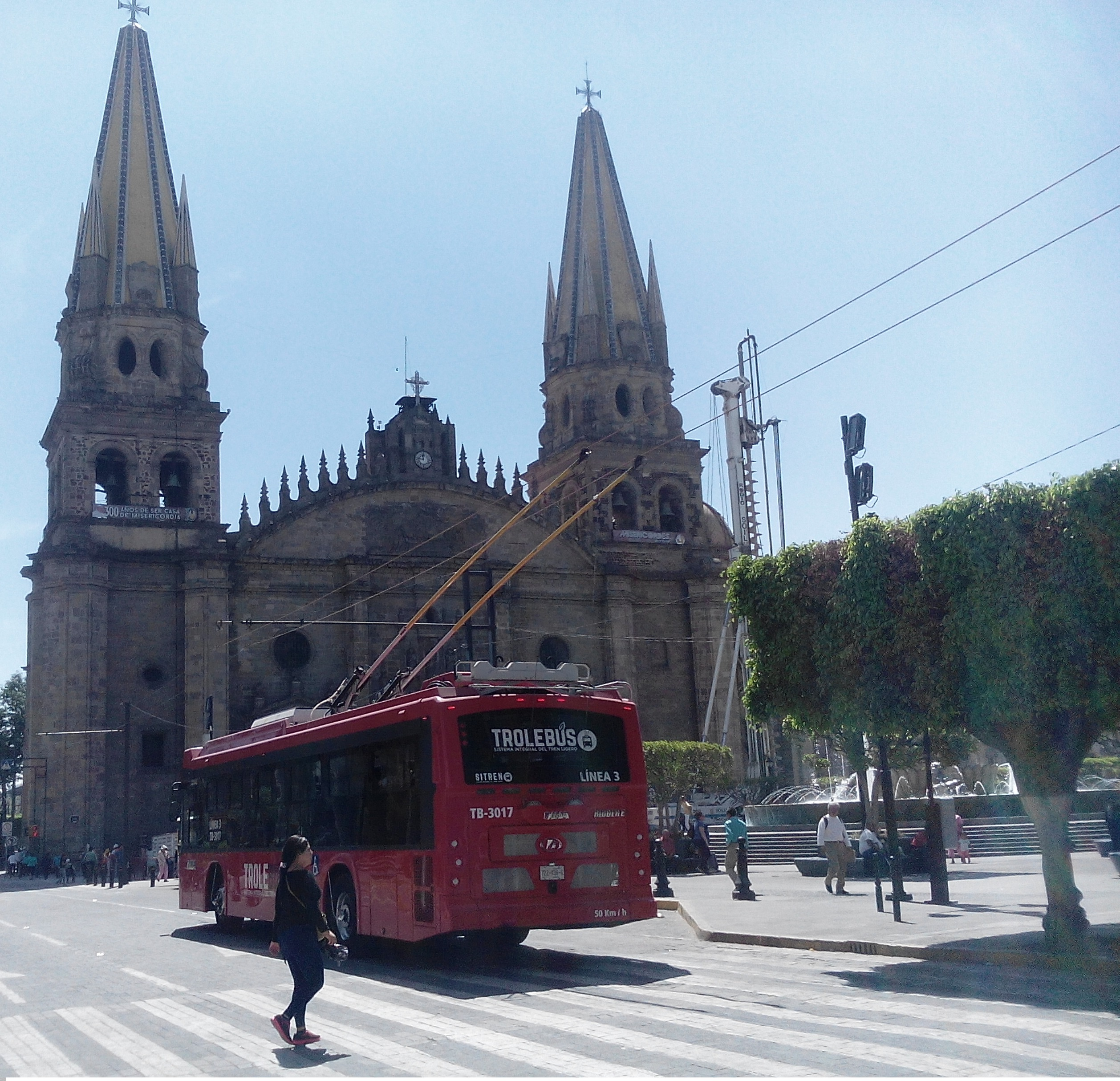 A DINA/Skoda trolleybus on Avenida Hidalgo in Guadalajara with the cathedral in the background